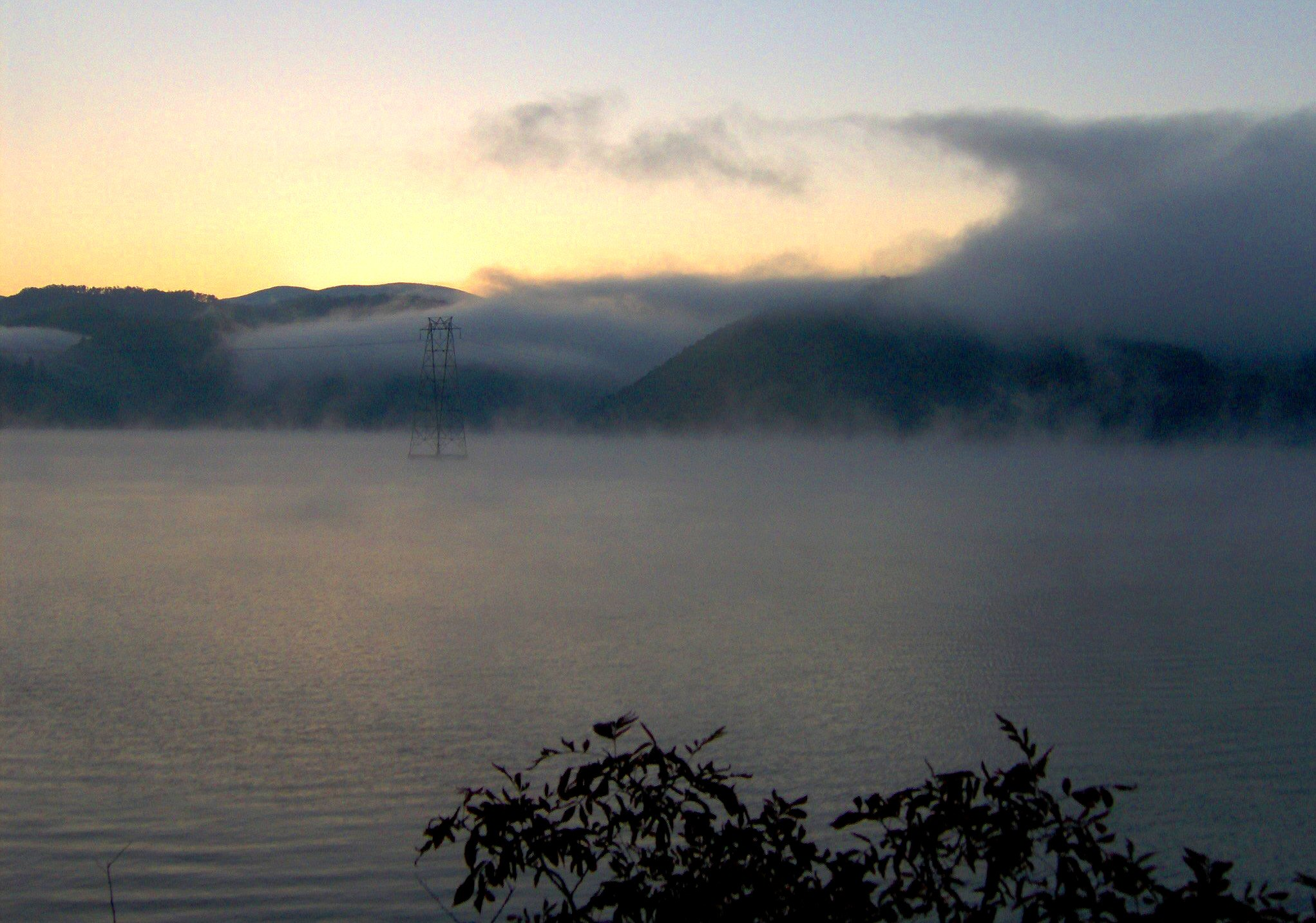 The ancient site of Chilhowee village, now submerged by Chilhowee Lake along the Little Tennessee River in the Southeastern U.S. Cherokee chiefs Old Tassel and Abraham of Chilhowee were killed here in 1788. According to Cherokee lore, Chilhowee was a favorite haunt of the ogress, Utlunta.